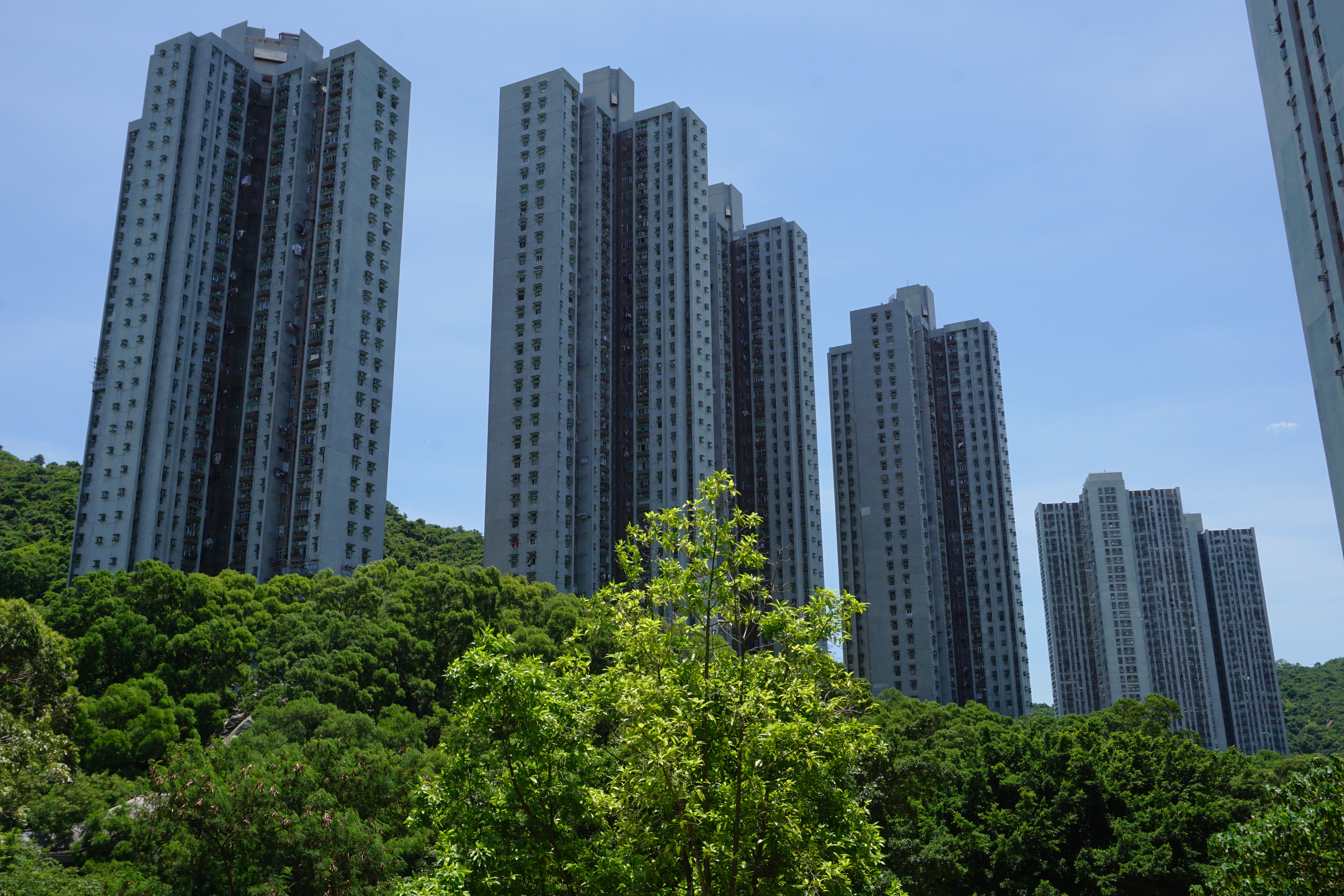 Ching Wah Court in Tsing Yi, Hong Kong.